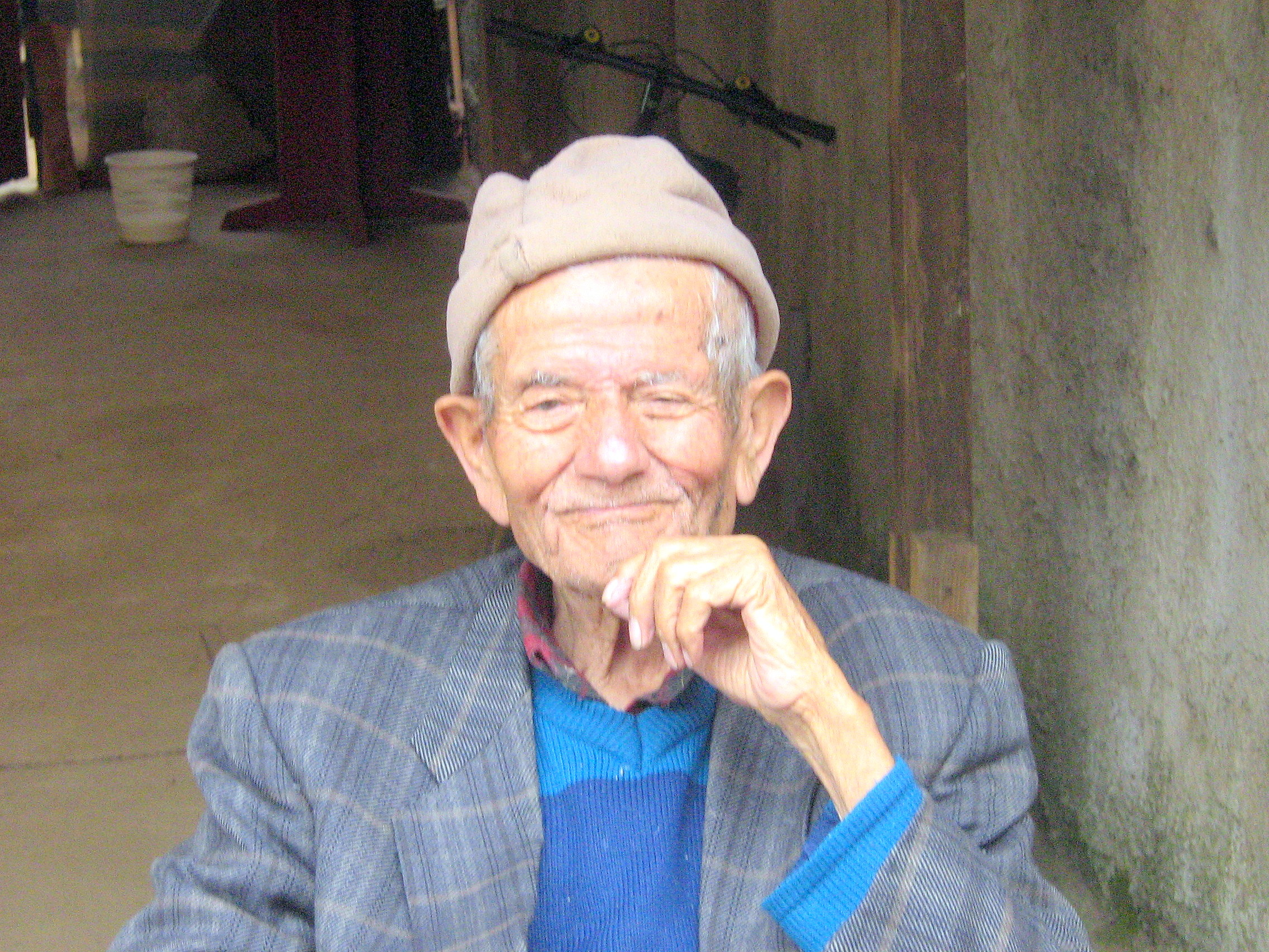 Mario Cañete Farías in 2007 († 2007-10-01).